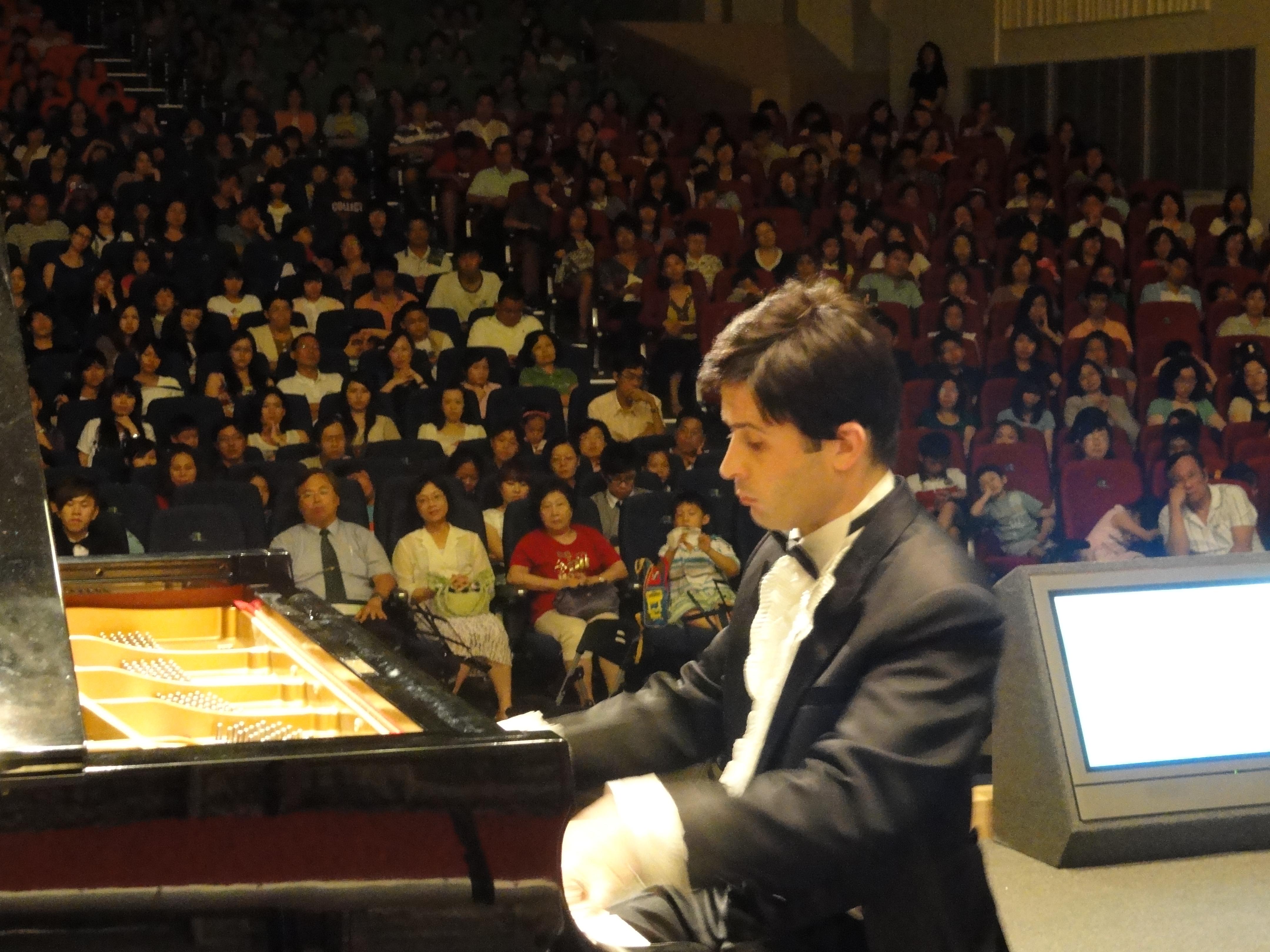 Pianist Giorgi Latsabidze giving a Charity Gala Concert in Taiwan, August 1st, 2010